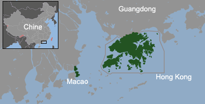 The location of SARs within the Pearl River Delta The map also shows the maritime boundary of Hong Kong since July 1 1997 and Macau since December 20, 1999 .